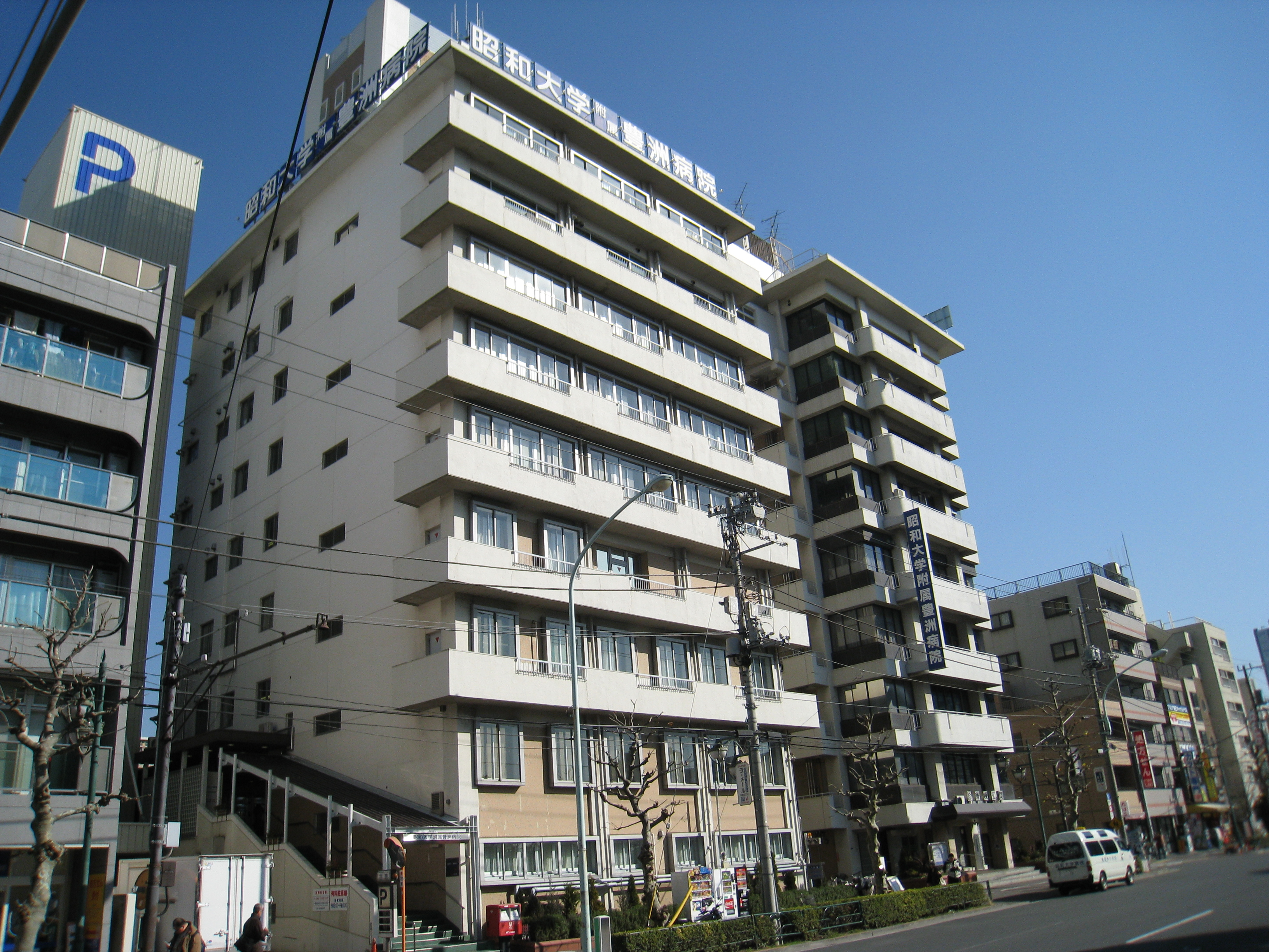 Showa University Toyosu Hospital